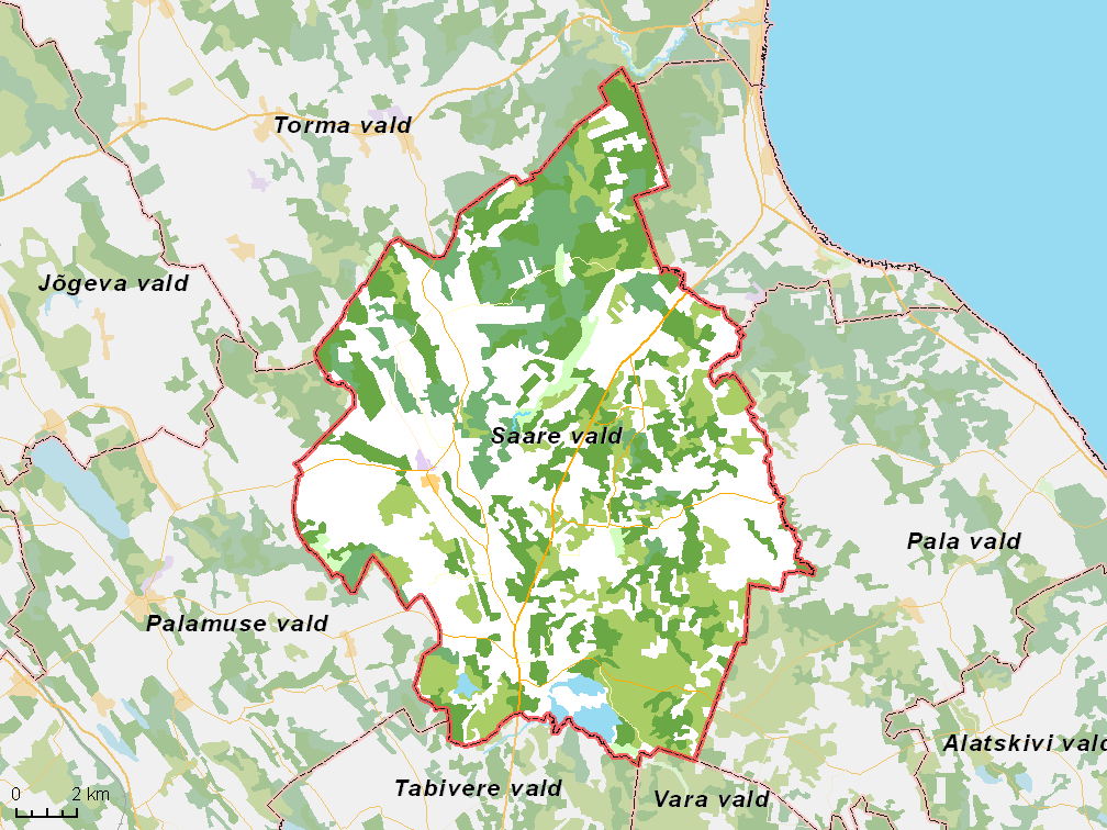 Map of municipality in Estonia